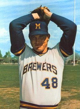 Professional baseball player Jim Colborn